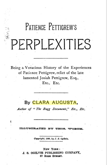 Patience Pettigrew's Perplexities. Being a Veracious History of the Experiences of Patience Pettigrew, Relict of the Late Lamented Josiah Pettigrew, Esq., by Clara Augusta Jones Trask